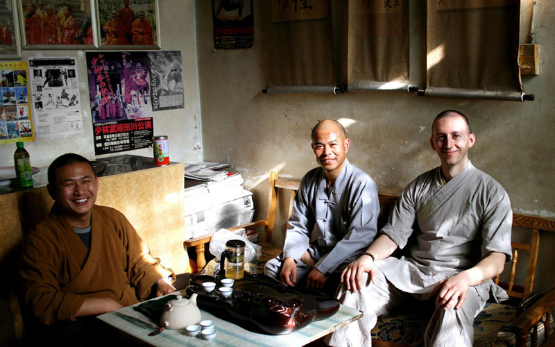 shi de yang 1